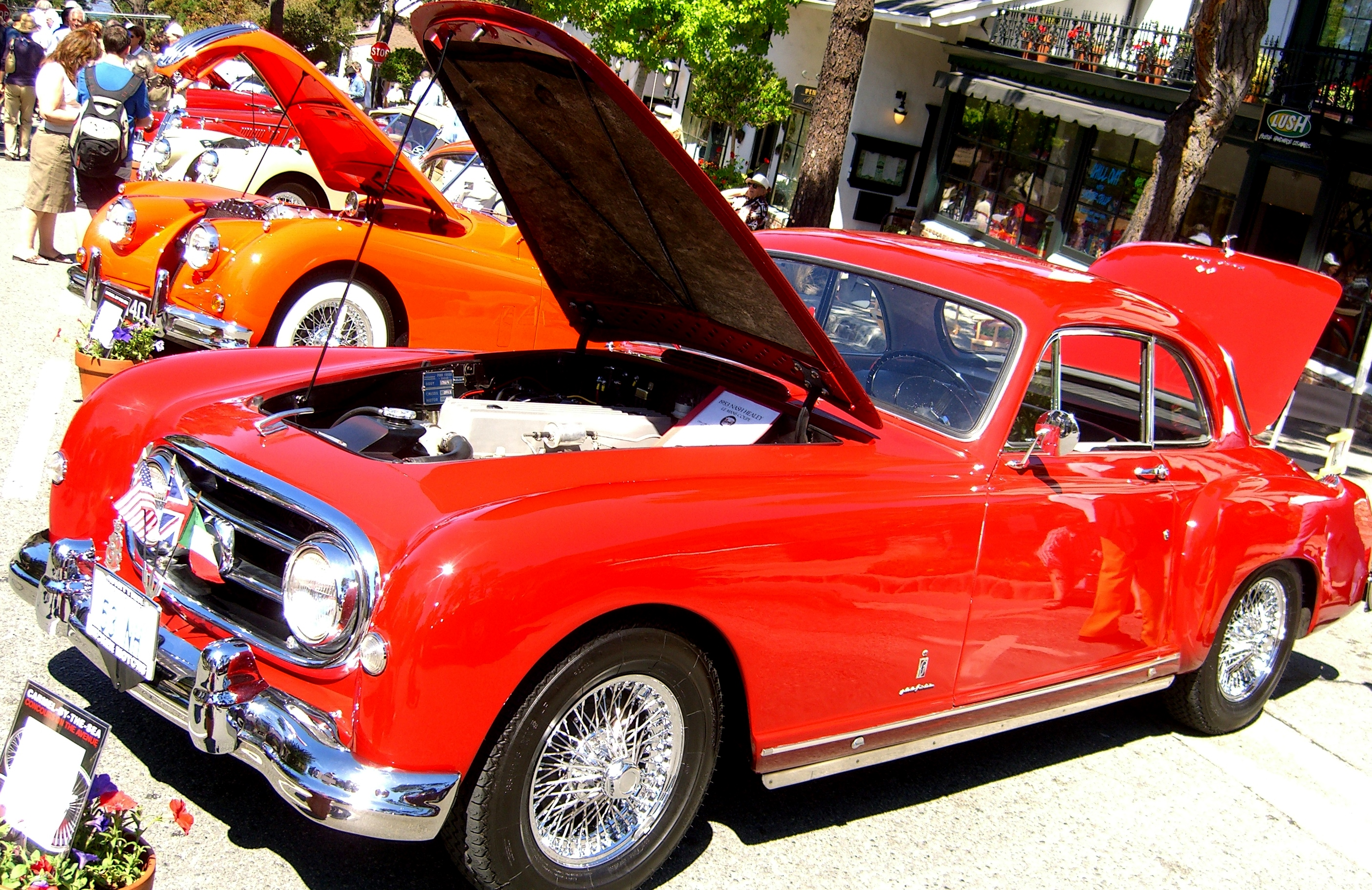 1953 Nash-Healey "Le Mans" coupe